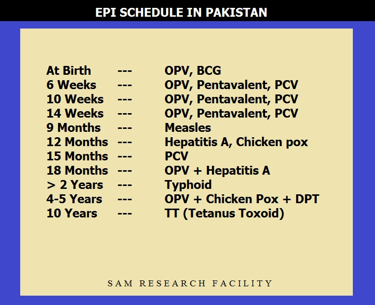 EPI Schedule implemented in Pakistan